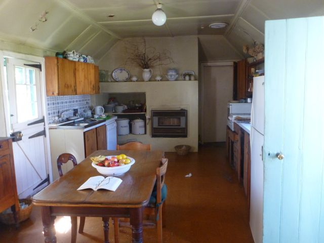 The Grange and Macquarie Plains Cemetery: Interior photo of kitchen at the Grange